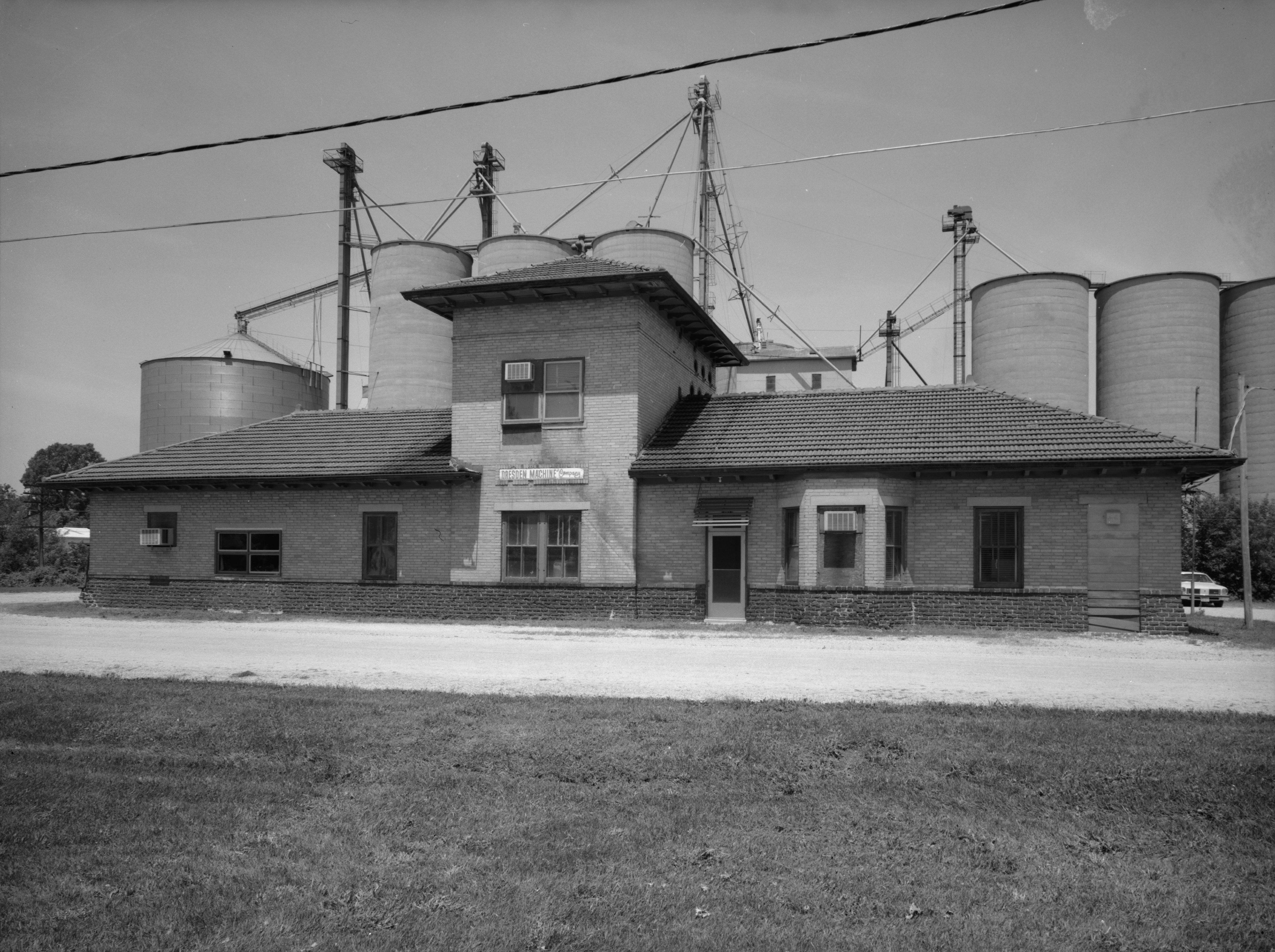 Illinois Traction System, Minooka Passenger Station, Minooka, Grundy County, IL. South facade of station looking northwest.